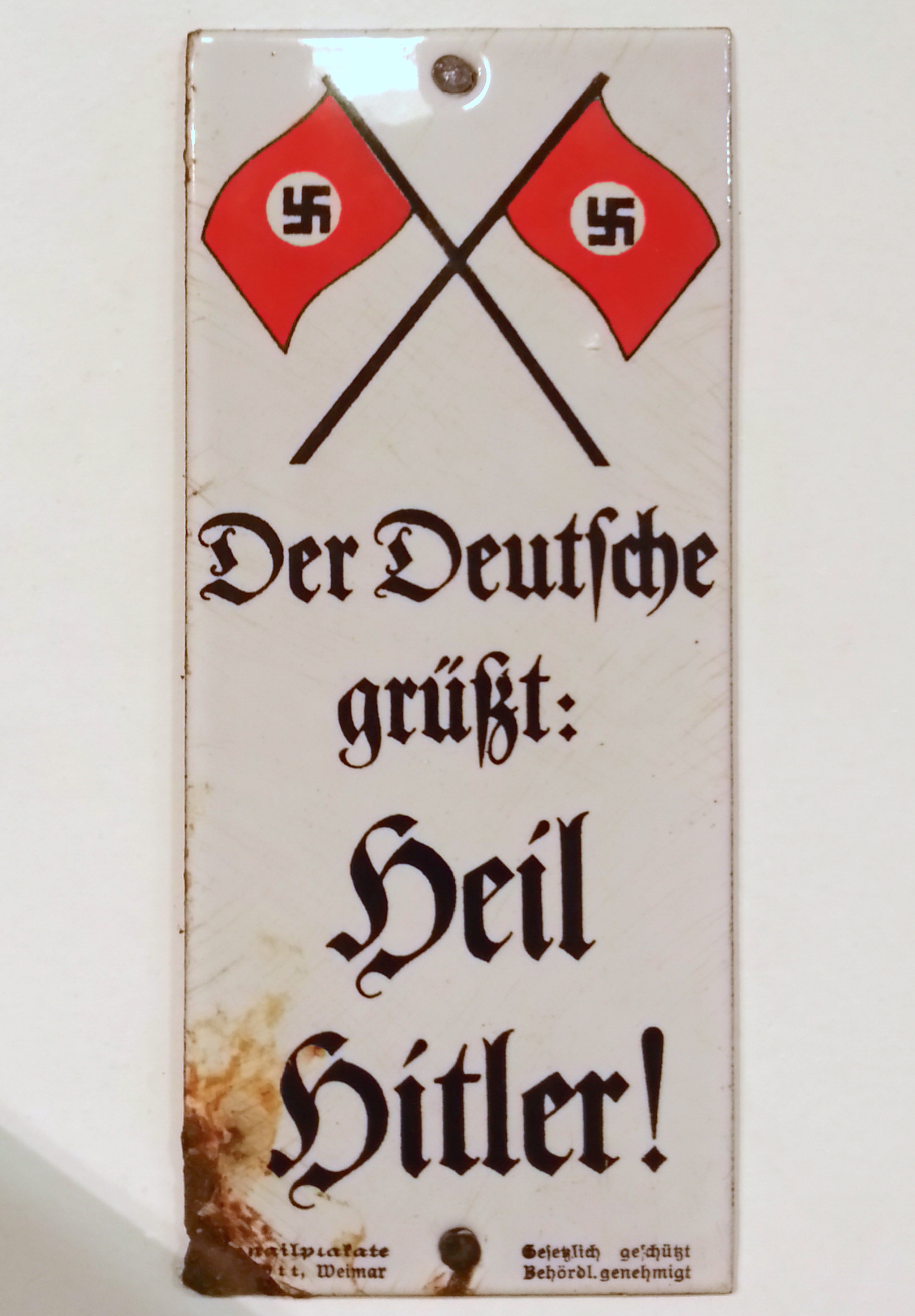 Enamel sign with the note "The German greets: Hail Hitler!" Exhibit of the Hällisch-Fränkisches Museum in Schwäbisch Hall The sign was produced in high numbers and was widely used.